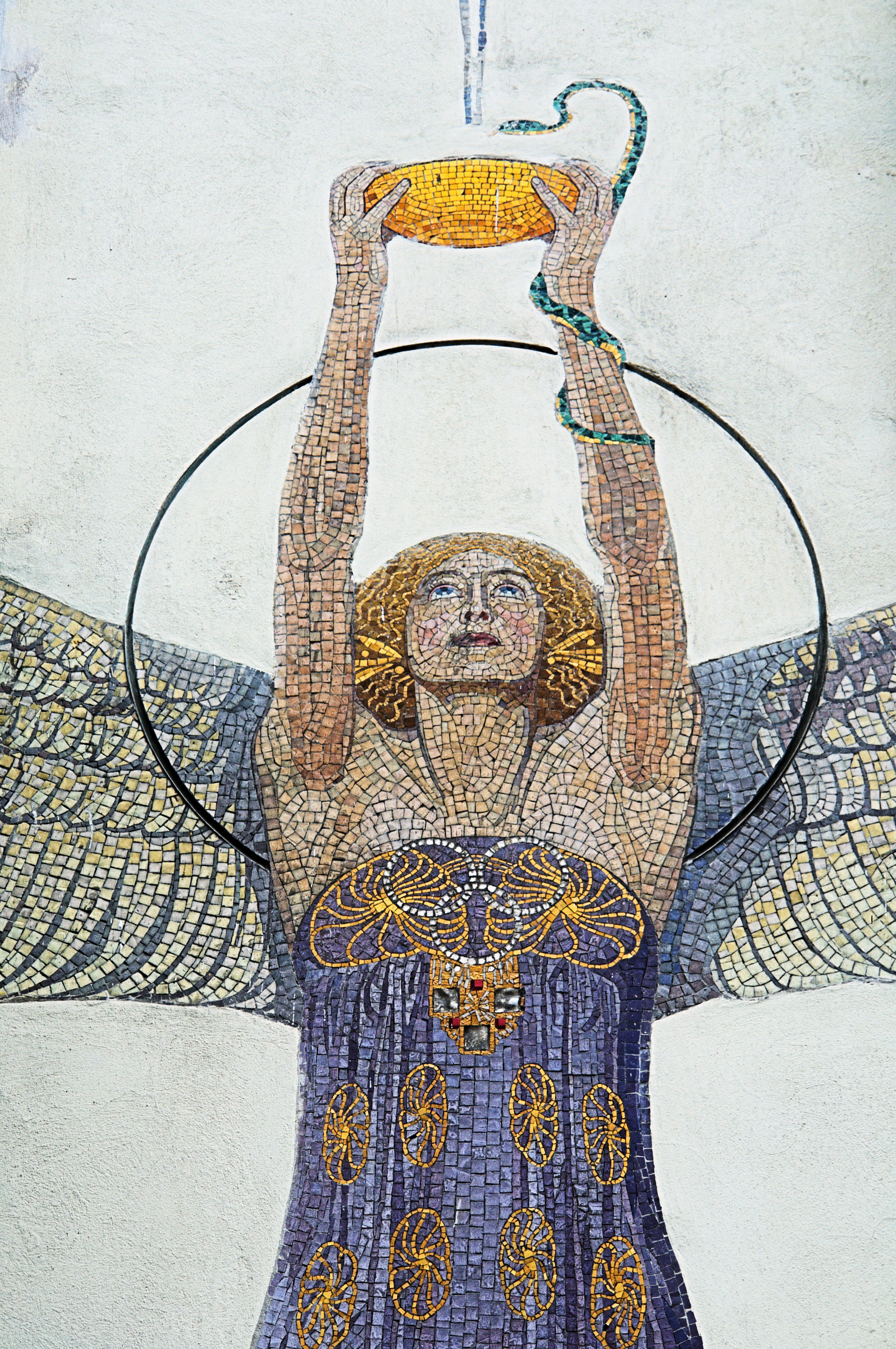 Detail of the facade of the pharmacy "Zum weißen Engel" - Oskar Laske (1901-1902) - Vienna, Austria